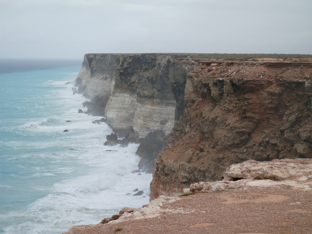 A image of the cliffs of South Australia meeting the sea in the Great Australian Bight Commonwealth Marine Reserve. Taken in 2010 when it was known as the Great Australian Bight Marine Park.